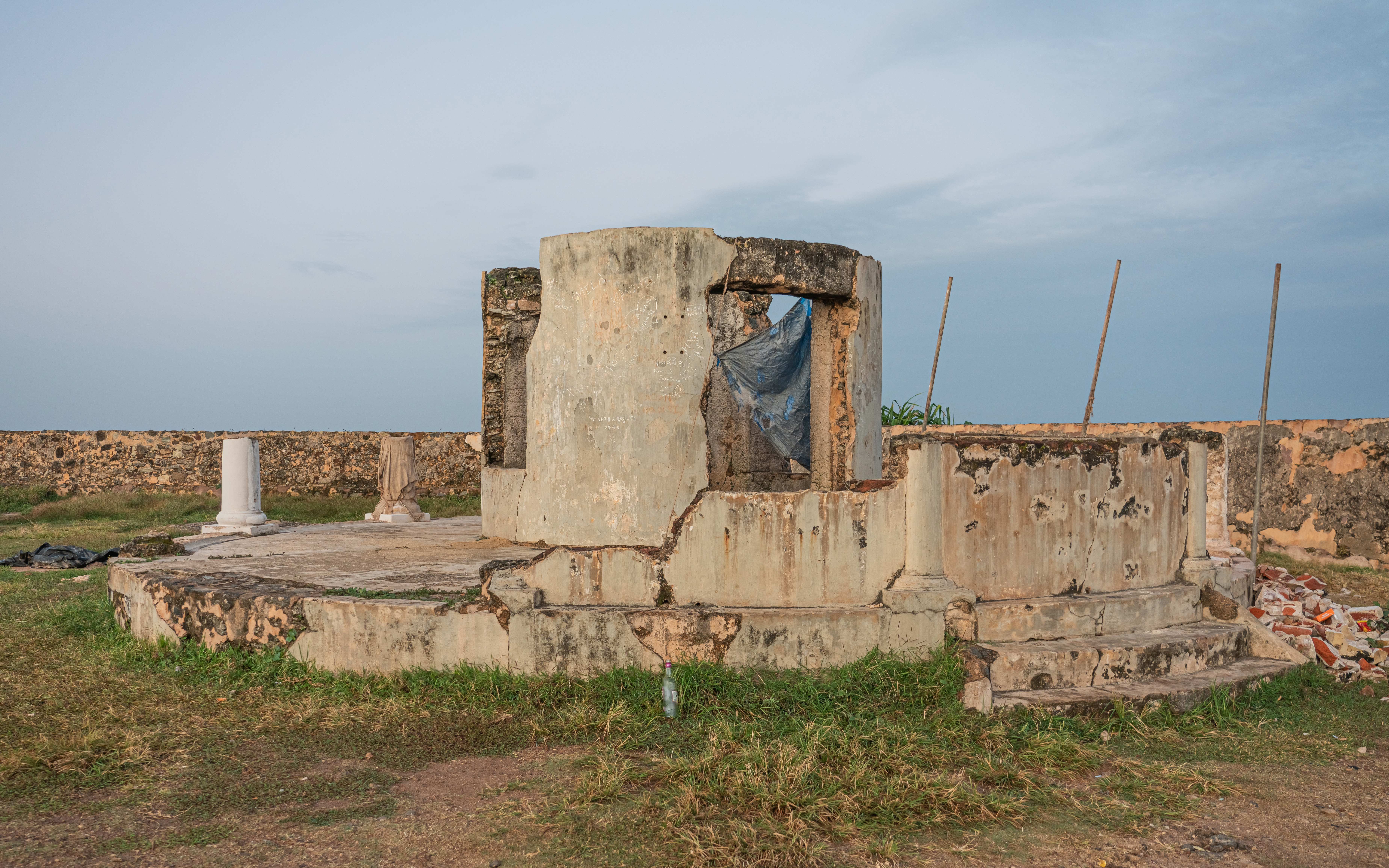 Neptune Bastion of the Dutch Fort of Galle, Sri Lanka